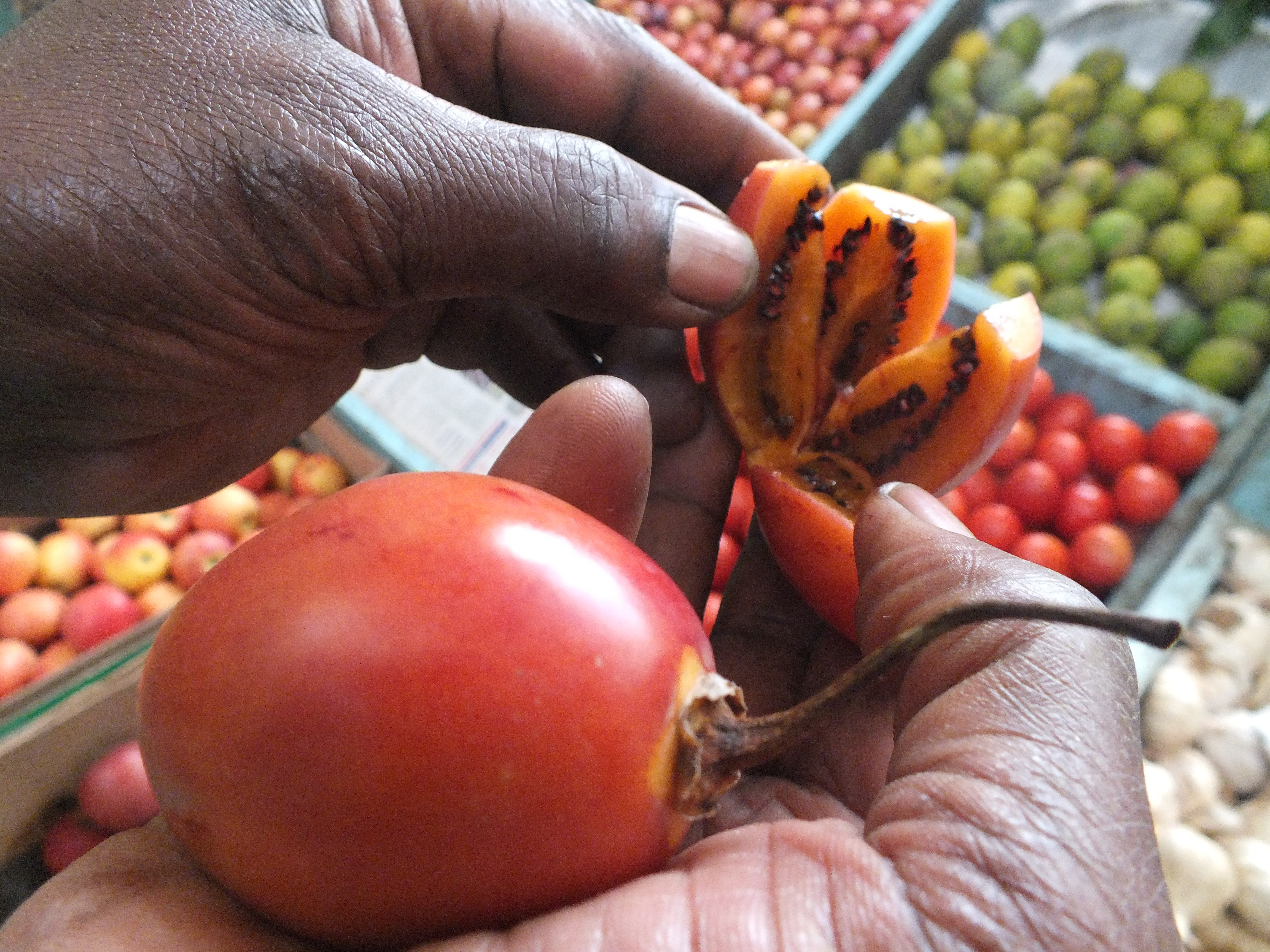 My fruitseller at Nairobi's City Market demonstrates one of the methods of eating a tree tomato.Kiswahili: Matunda mazuri.